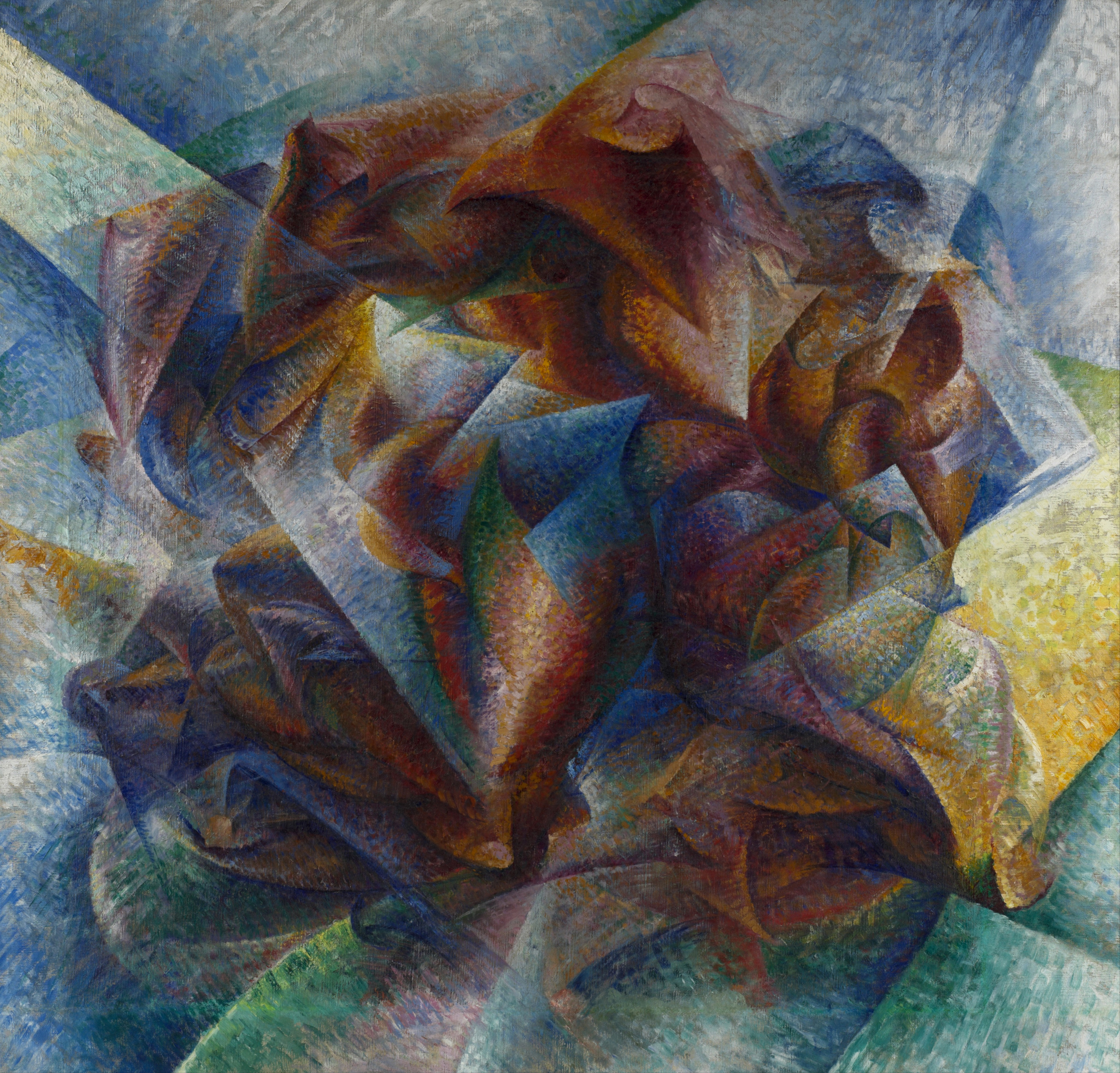 Umberto Boccioni, Dynamism of a Soccer Player, 1913, oil on canvas, 193.2 x 201 cm (6' 4 1/8" x 6' 7 1/8"). The Sidney and Harriet Janis Collection, Museum of Modern Art, New York Wikipedia Loves Art at the Museum of Modern Art This photo of item # 580.1967 at the Museum of Modern Art was contributed under the team name "shooting_brooklyn" as part of the Wikipedia Loves Art project in February 2009. Museum of Modern Art The original photograph on Flickr was taken by shooting brooklyn—please add a comment to the original Flickr page whenever a use has been made on Wikipedia or another project. Project galleries on Flickr: this institution, this team Umberto Boccioni, Dynamism of a Soccer Player, 1913, oil on canvas, 193.2 x 201 cm (6' 4 1/8" x 6' 7 1/8"). The Sidney and Harriet Janis Collection, Museum of Modern Art, New York Wikipedia Loves Art at the Museum of Modern Art This photo of item # 580.1967 at the Museum of Modern Art was contributed under the team name "shooting_brooklyn" as part of the Wikipedia Loves Art project in February 2009. Museum of Modern Art The original photograph on Flickr was taken by shooting brooklyn—please add a comment to the original Flickr page whenever a use has been made on Wikipedia or another project. Project galleries on Flickr: this institution, this team